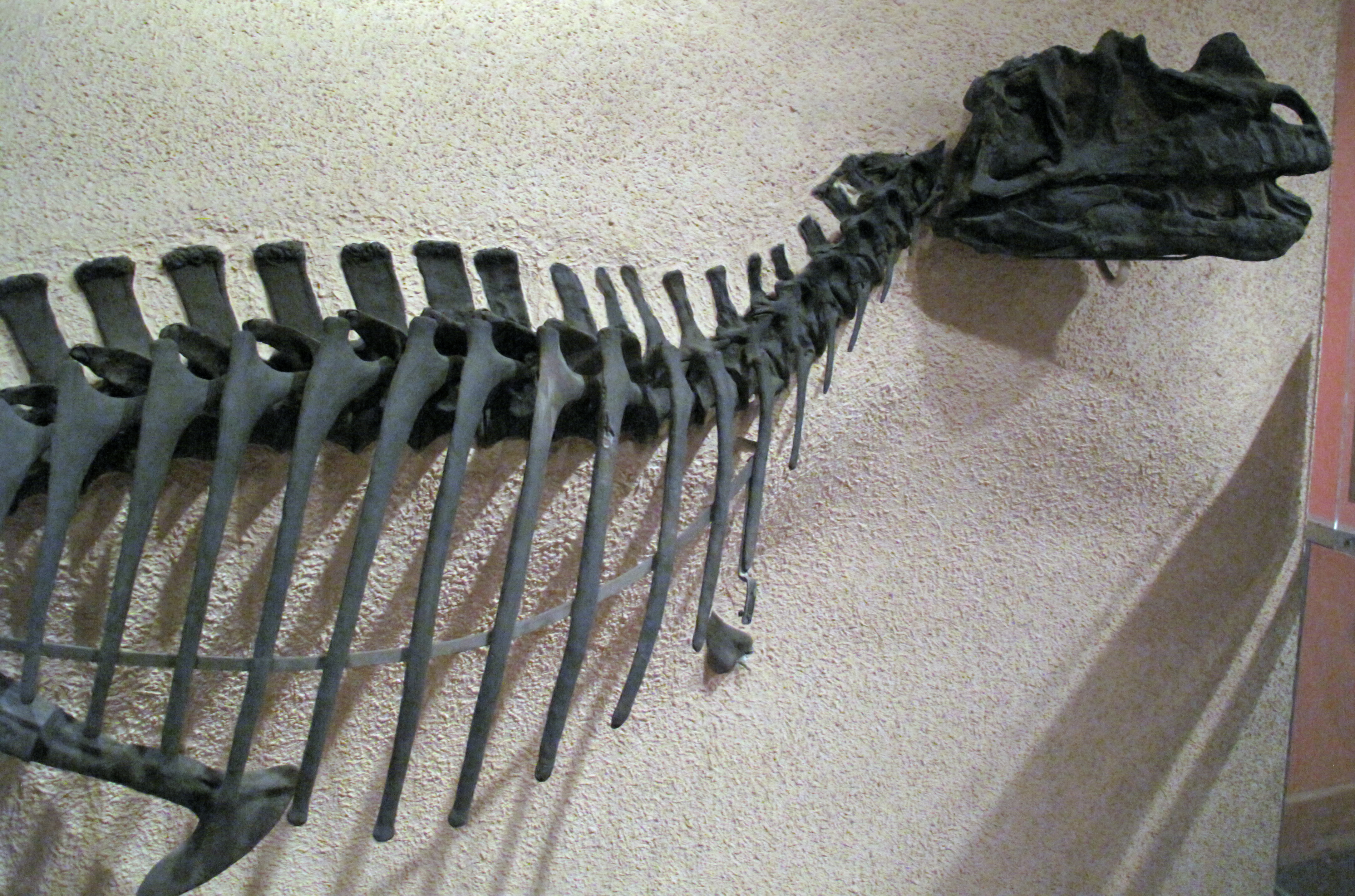 A quick visit to the national museum of natural history at DC.